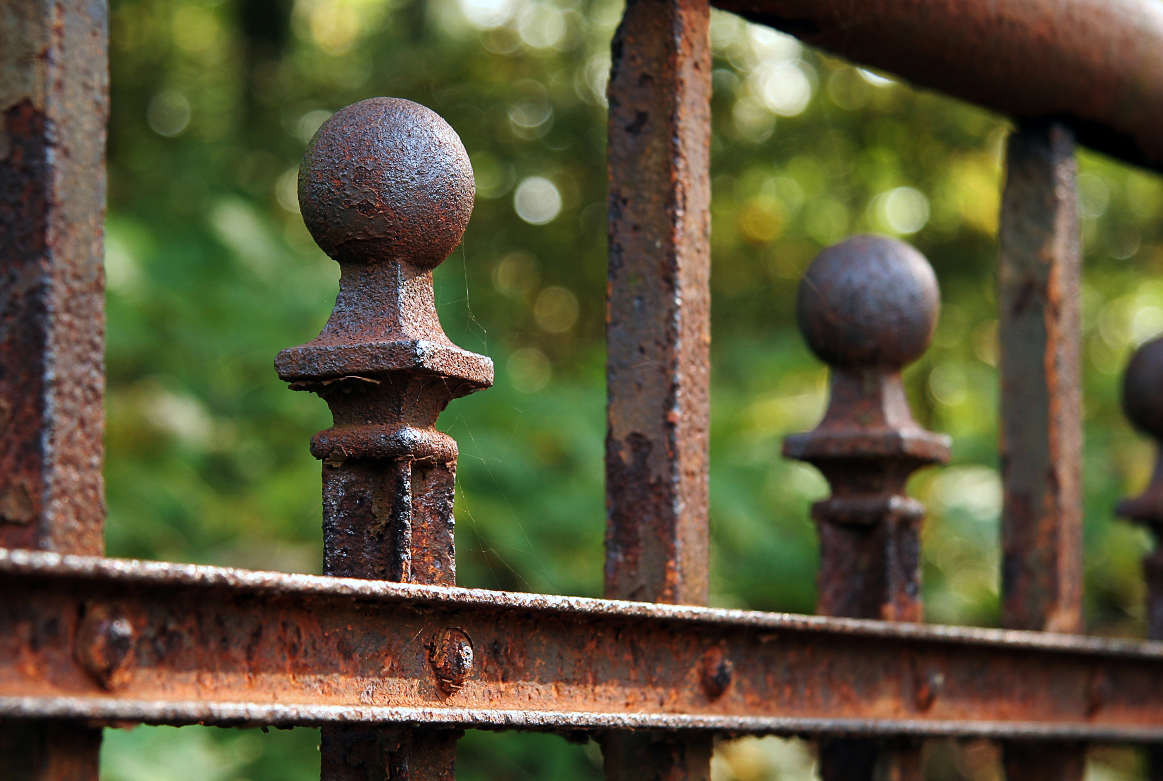 Rusty fence/railing